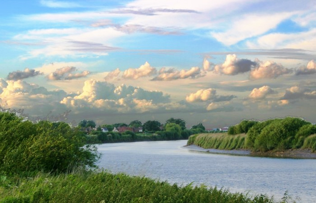 Clouds